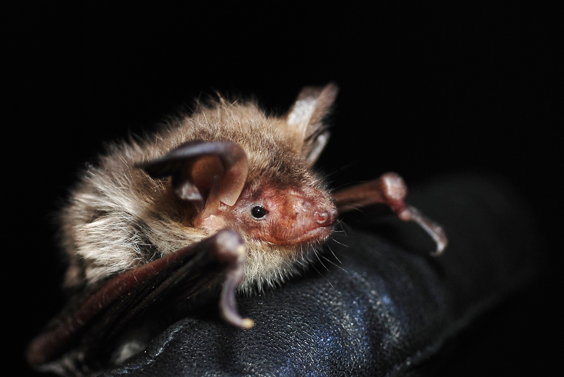 Myotis bechsteini (Mammalia, Chiroptera), a bat in a hand with leather gloves